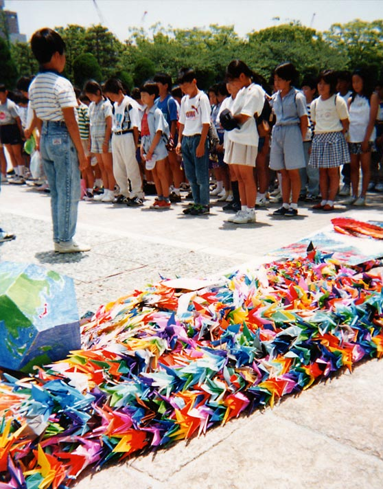 Senbazuru (千羽鶴) - or 1000 cranes. Japanese school children dedicate a collection of paper origami cranes they are delivering to the memorial for Sadako Sasaki in Hiroshima Peace Park. Sadako Sasaki died of Leukemia at the age of 12 as a result of radiation from the atomic bombing of Hiroshima. Before dying, Sadako folded 644 paper cranes after hearing the Japanese legend that folding 1000 cranes would cause the gods to grant her a wish. Today school children all over Japan (not to mention the world) continue to fold paper cranes and send them to her monument in a universal wish for peace. The crane is also an Asian symbol of longevity. Keywords: senbazuru, 1000 cranes, origami, Sadako Sasaki, peace, Hiroshima.